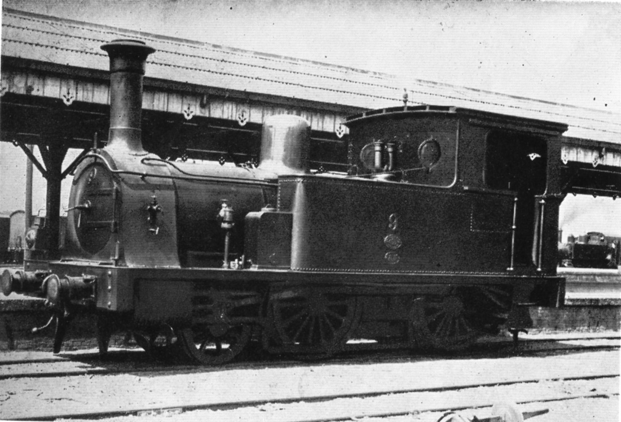 Japan Government Railway type 190 steam locomotive (refined)